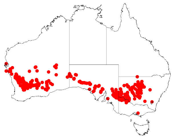 Acacia colletioides Occurrence data from Australasia Virtual Herbarium downloaded from on 8 December 2018